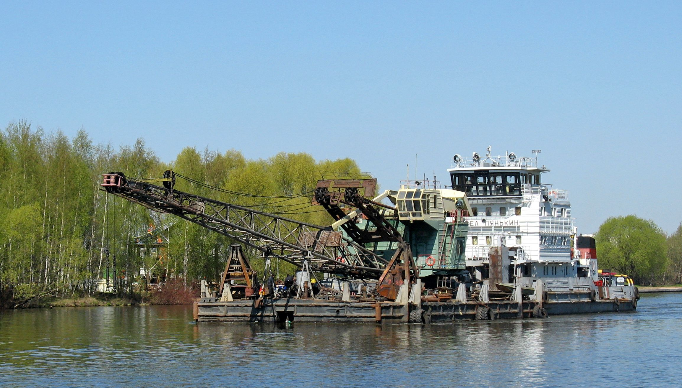 Pusher "Pavel Pjankin" (former БТО-606 (BTO-606)) with a the floating crane. The photo is made on the Moskva River in Moscow, near the Serebrjanyj Bor